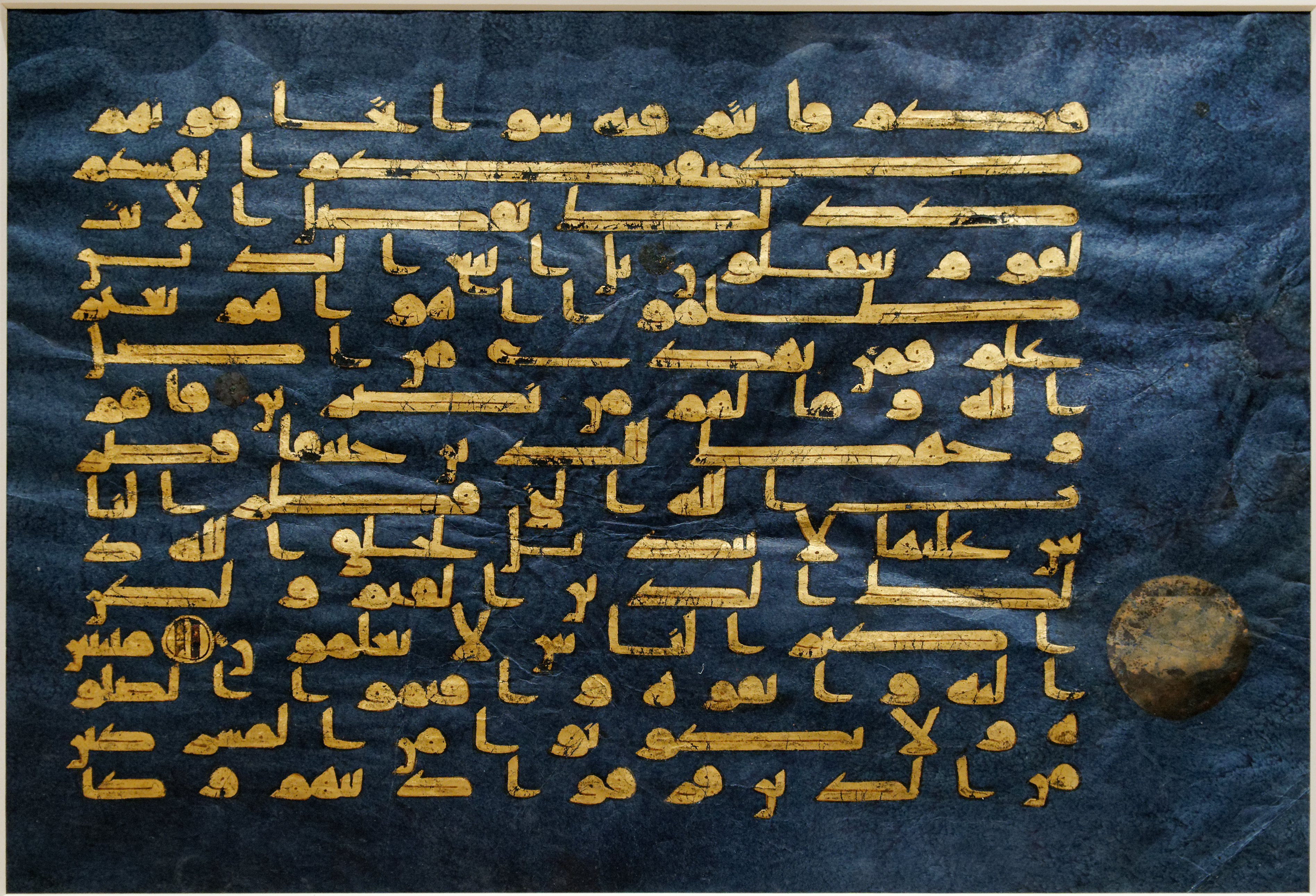 Folio from the so-called Blue Qur'an (sura 30:28-32), Fatimid artwork.